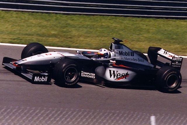 David Coulthard driving for McLaren at the 1999 Canadian Grand Prix.